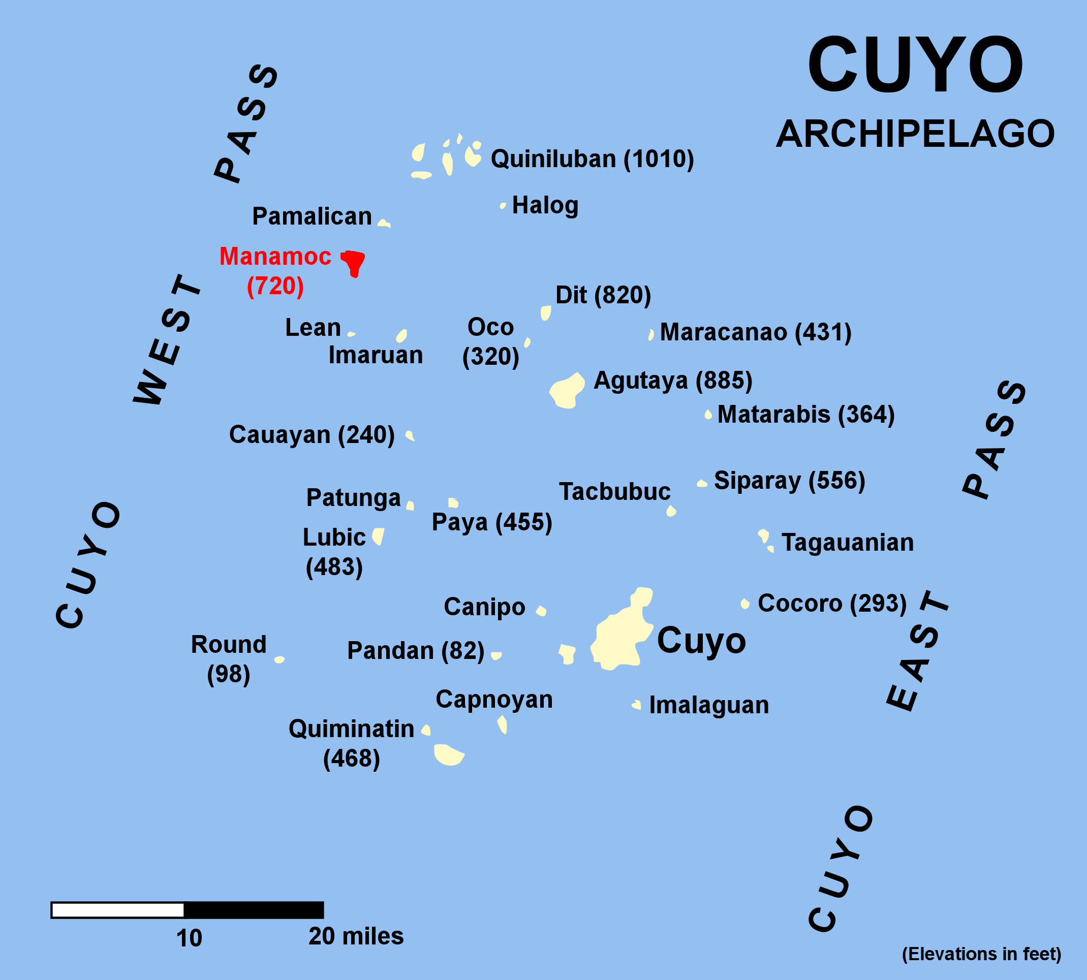 Manamoc_map.